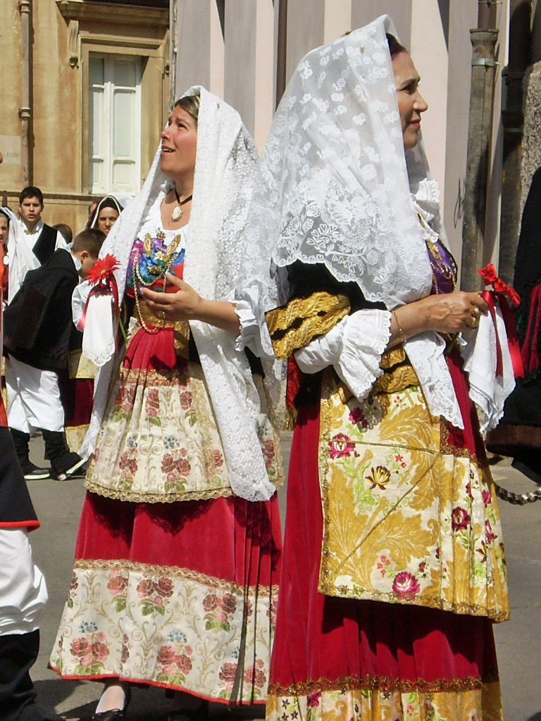 352° Festa di Sant'Efisio